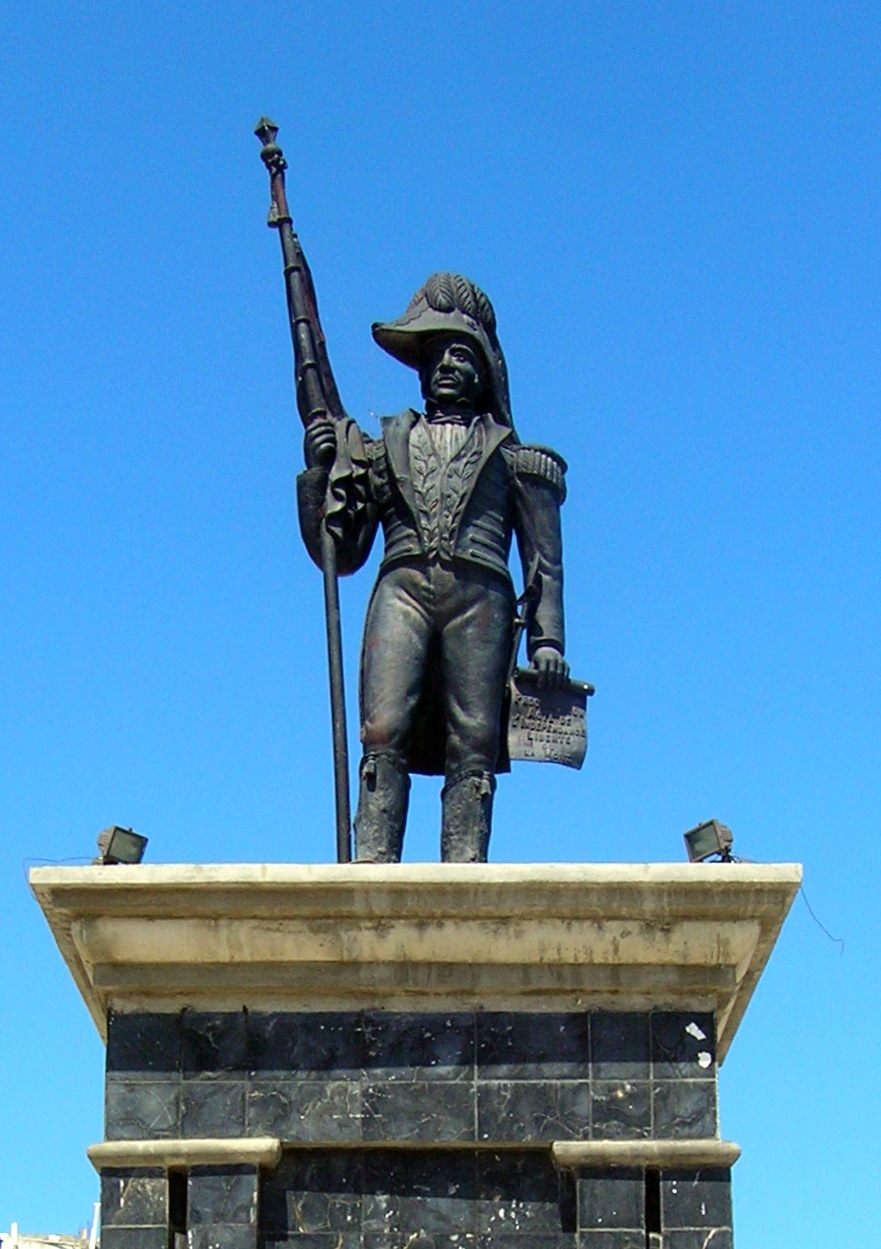 Statue of Jean-Jacques Dessalines, figure of the Haitian revolution.